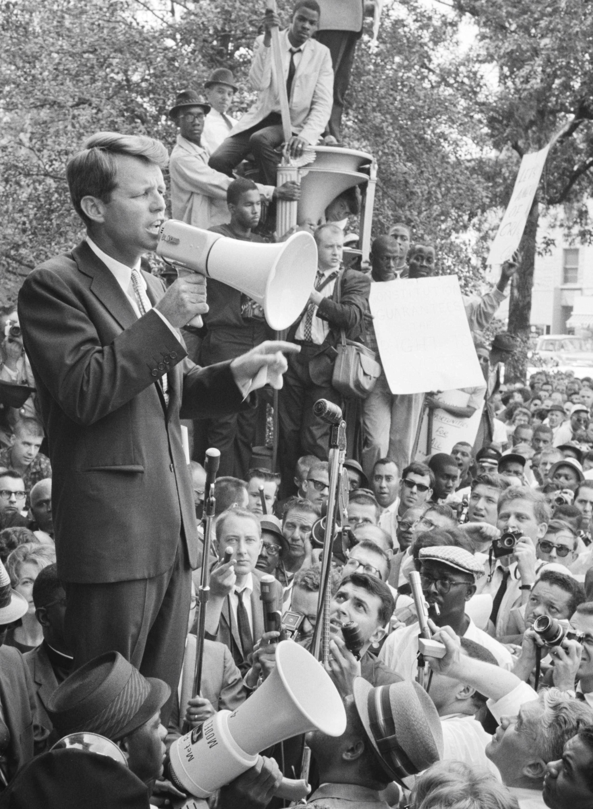 Photograph showing Attorney General Robert F. Kennedy speaking to a crowd of African Americans and whites through a megaphone outside the Justice Department; sign for Congress of Racial Equality is prominently displayed.